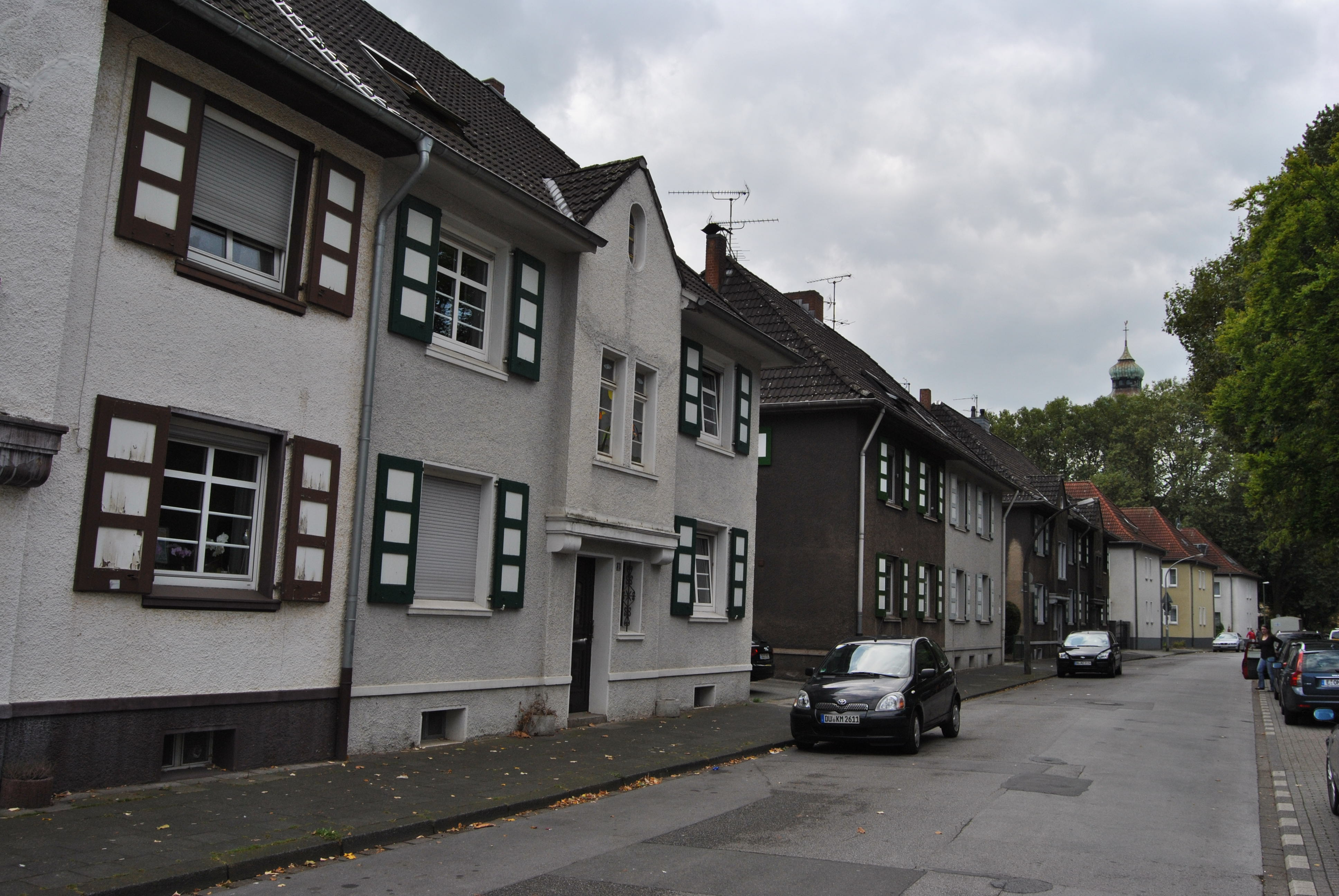 This photograph was taken with a Nikon D3000 This image shows a heritage building in Germany, located in the North Rhine-Westphalian city Duisburg. Wohngebäude entlang der Paulstraße in der denkmalgeschützten Margarethensiedlung in Duisburg-Rheinhausen (Hochemmerich)